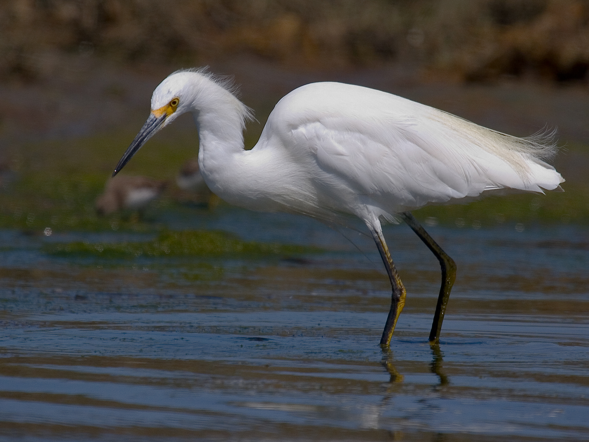 Snowy Egret in Morro Bay, CA Estuary